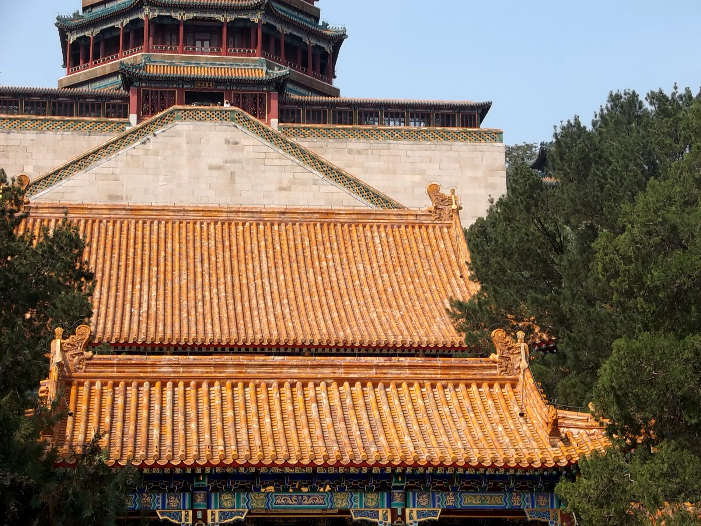 Paiyun Dian (Hall of Dispelling Clouds) and Foxiang Ge (Tower of Buddhist Incense) at Wanshou Shan (Longevity Hill) - Summer Palace - Beijing, China, 27.8.2014